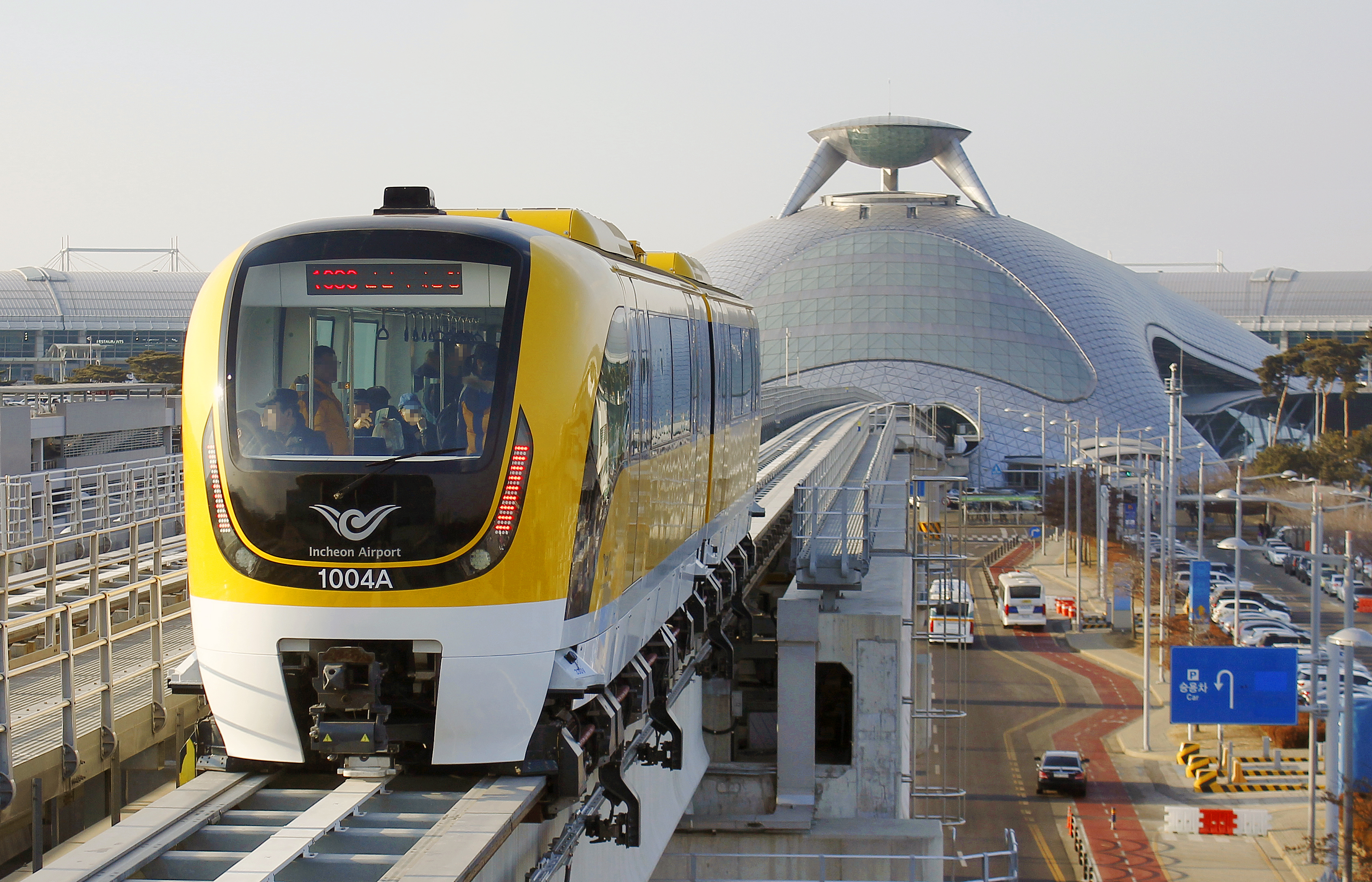 Incheon Airport Maglev 1-04